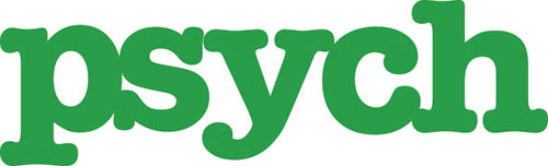 Logo for the TV series Pysch, which only consists of Simple Text. Logos that only contain Simple Text, Numbers, Colors, and/or Shapes are free of copyright resritictions, but may be subject to Trademark.